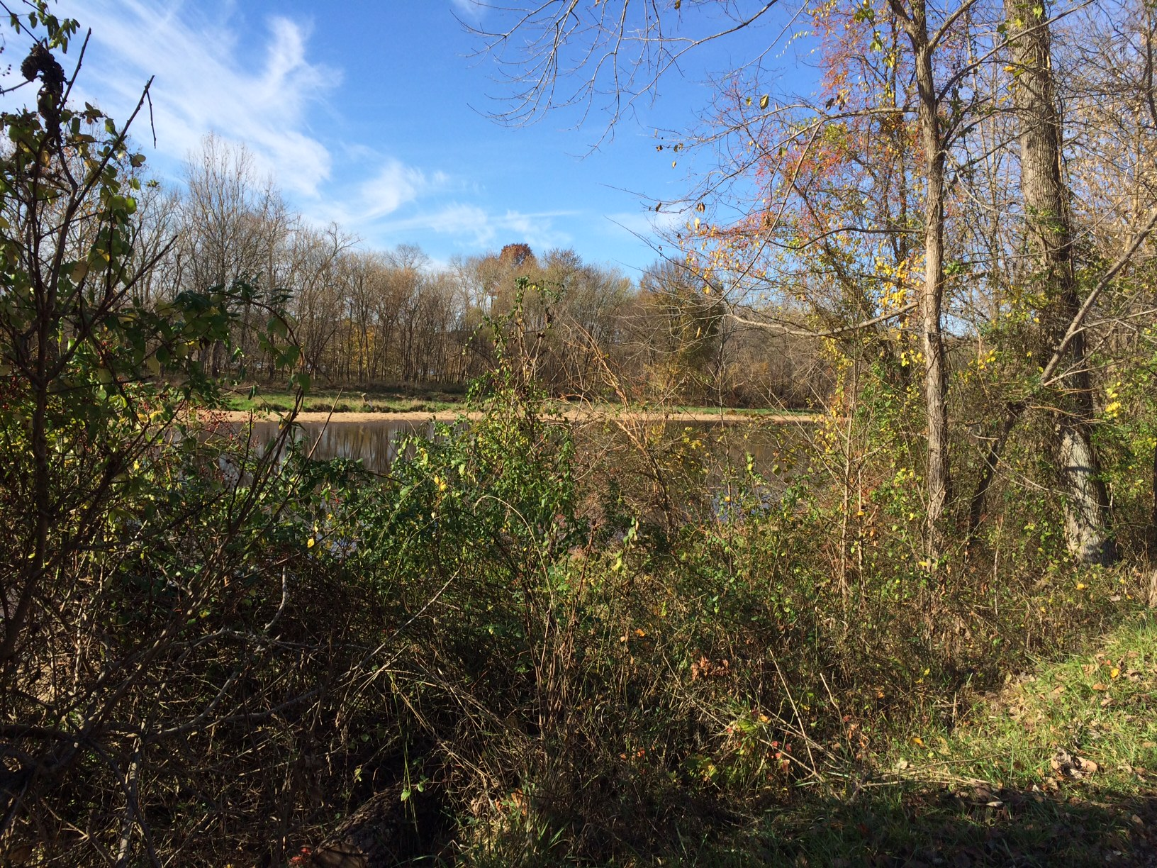 Man-made pond, just south of MP 20.2 on C&O Canal